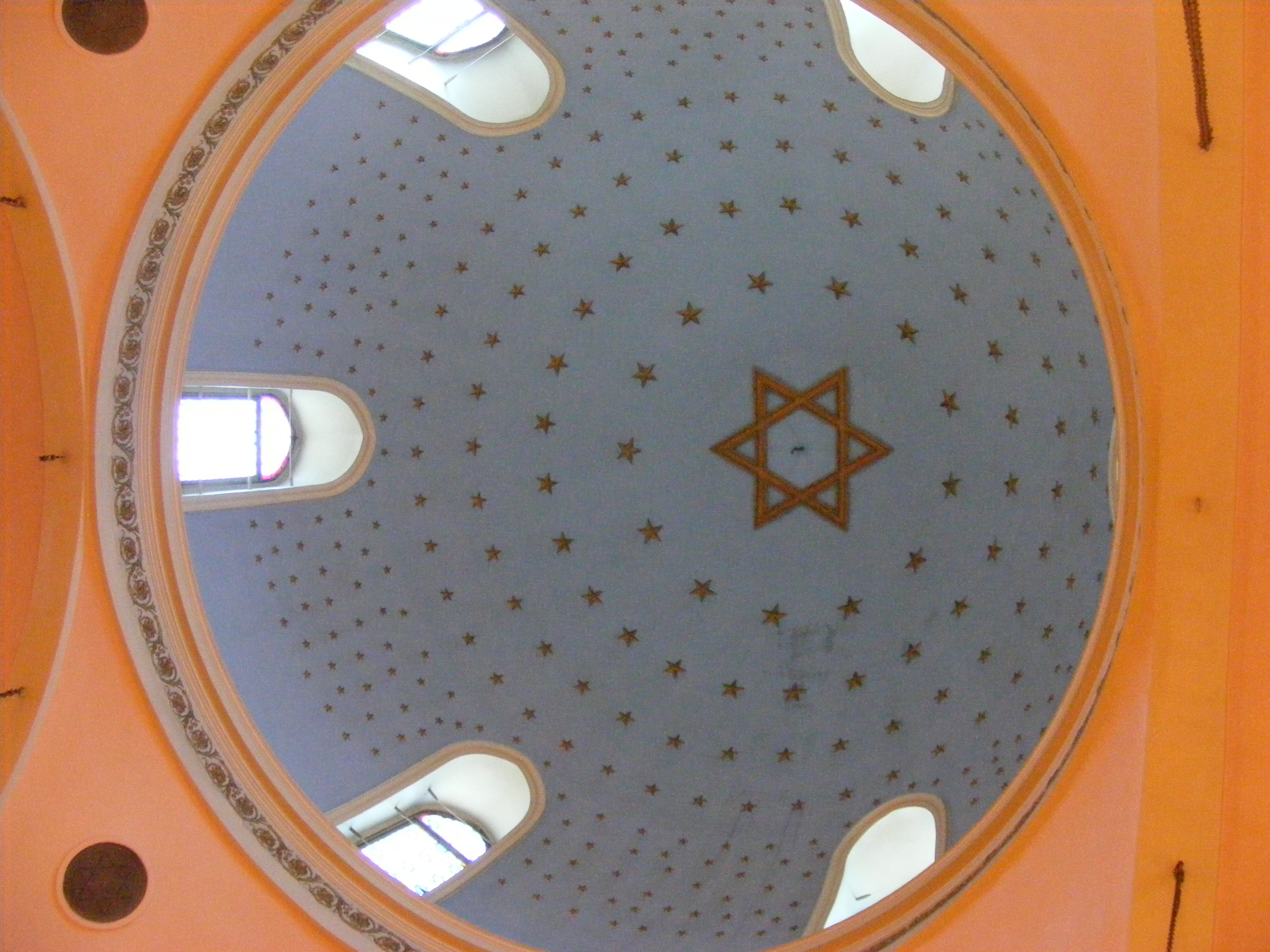 Dome of the Istanbul Ashkenazi Sinagogue